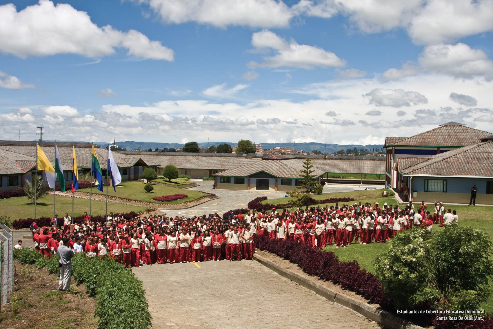 Students of Cibercolegio UCN